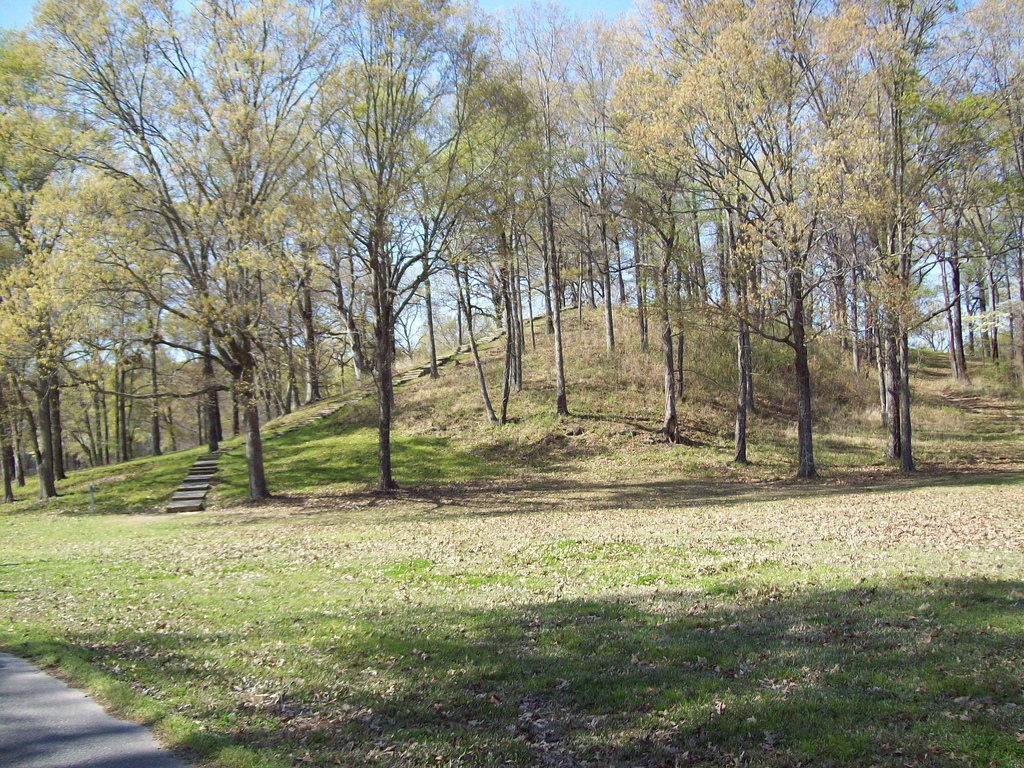 Mound A at the Poverty Point site, Louisiana, USA. A prehistoric site of various earthworks, including ring walls and mounds. The site is a state park and designated as National Monument. This image shows the largest mound, called Bird Mound or Mound A.